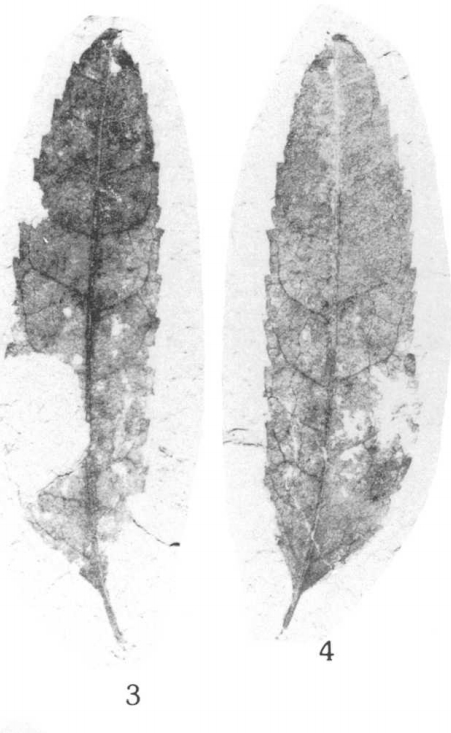 Barghoornia oblongifolia Wolfe et Wehr plate 12 fig 3-4; Holotype leaf part and counter part specimen Ypresian, Latest Early Eocene; Tom Thumb Tuff member, Klondike Mountain Formation, Republic, Washington, U.S.A. United States National Museum, Washington, DC USNM 32695A, B